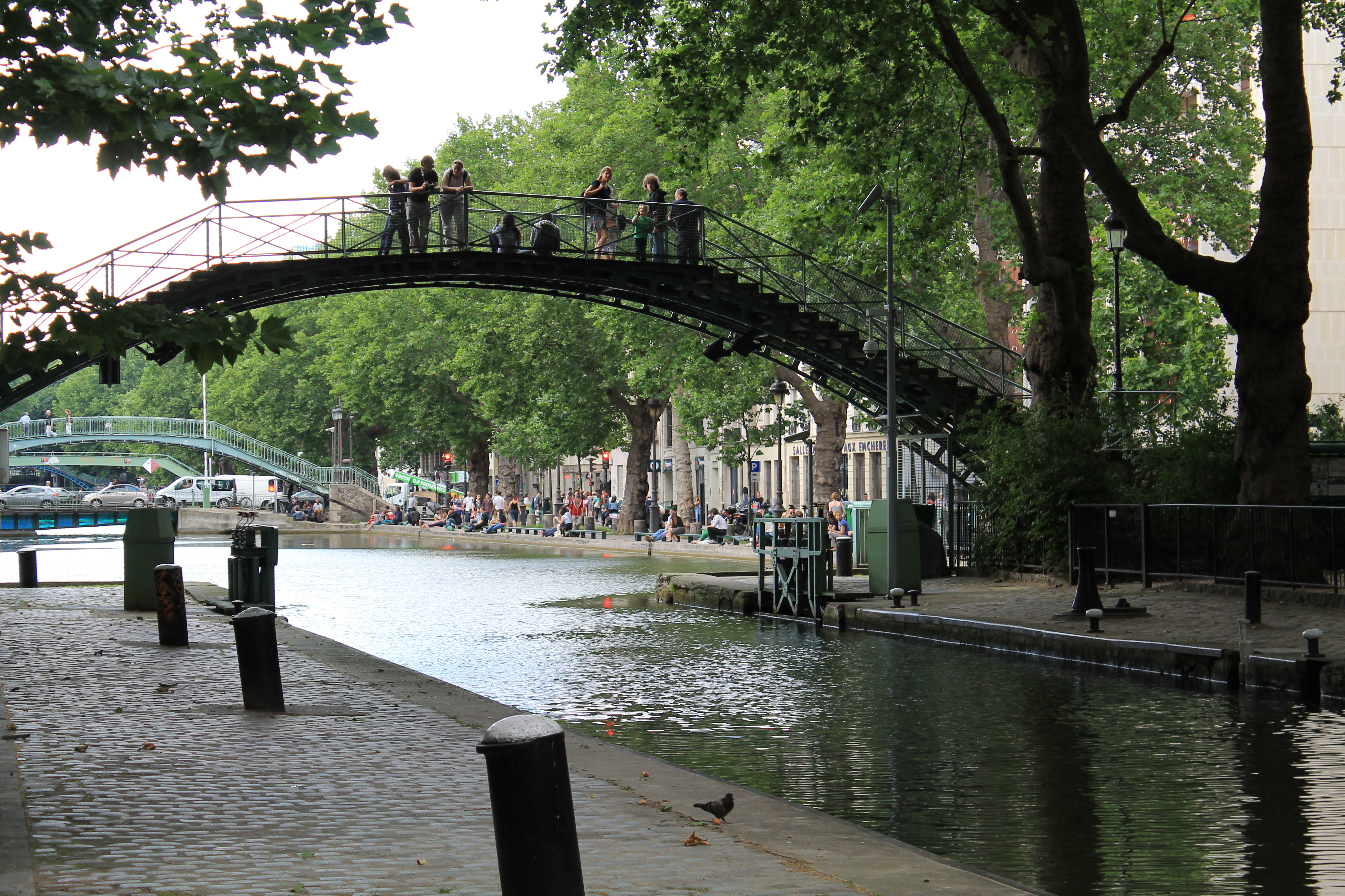 Paris - Canal Saint Martin